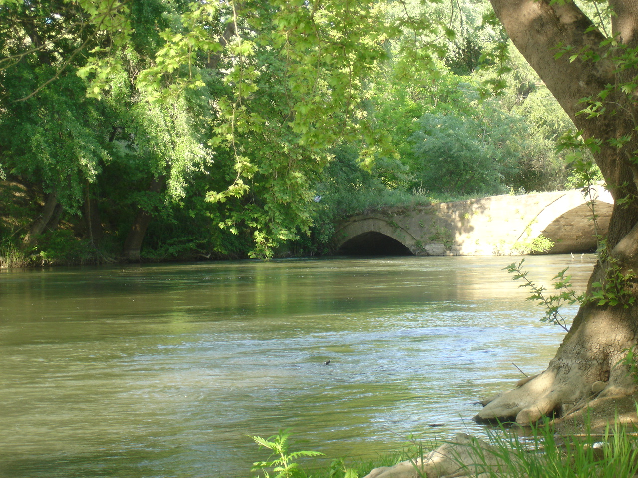 The bridge over Aggitis river at the end of the canyon, at Alistrati serron, in Greece